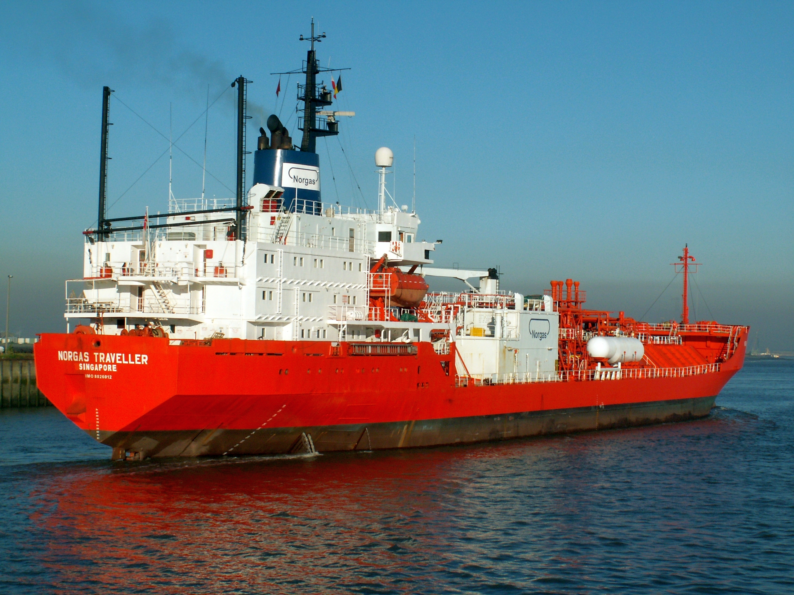 Norgas Traveller astern, Port of Antwerp, Belgium 19-Sep-2005.